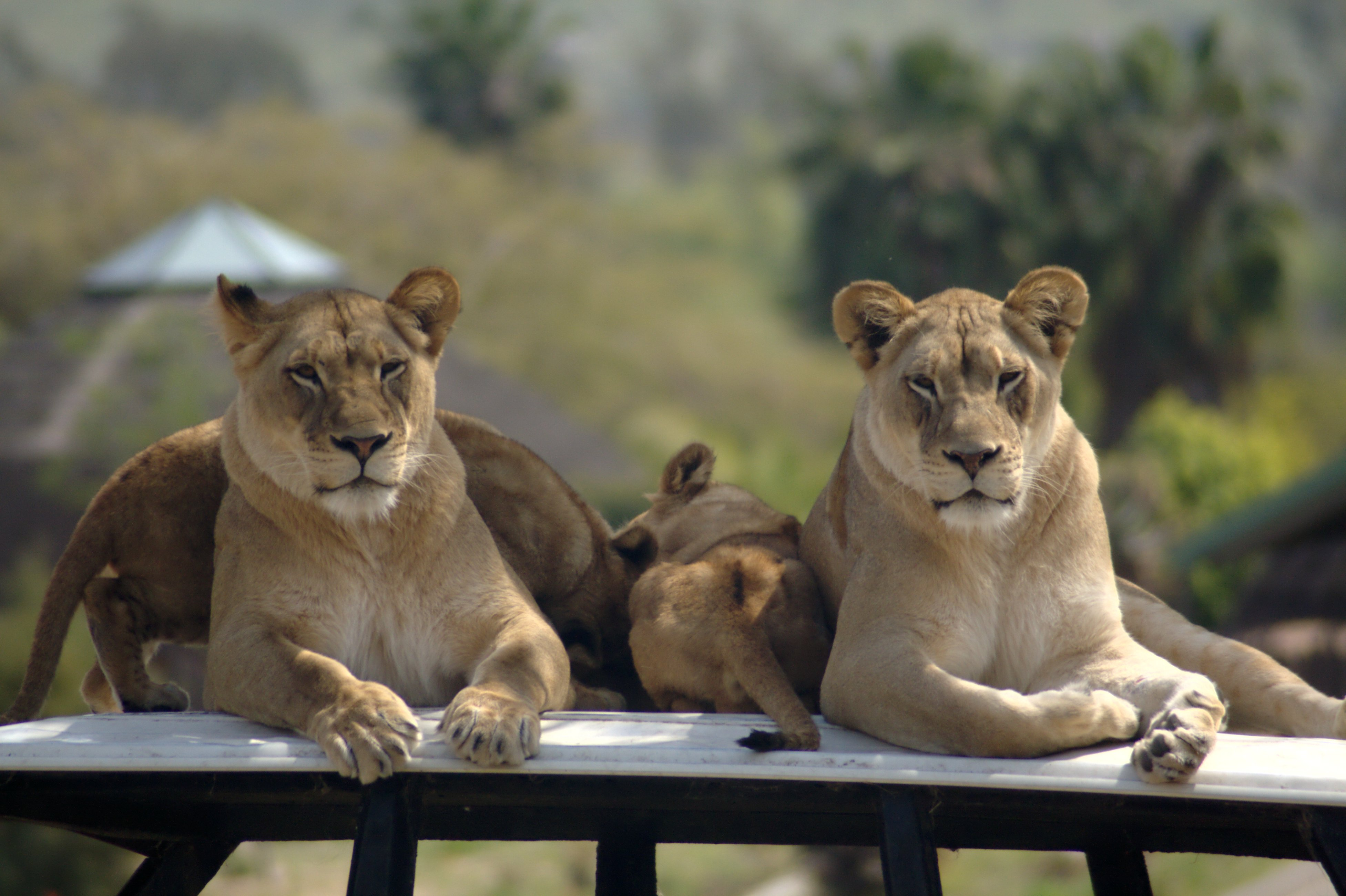 Lion with cubs at San Diego Wild Animal Park